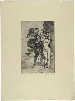 Part of Classical Legends (Antike Legenden), a portfolio of twelve drypoints, plate: 13 15/16 x 8 7/8" (35.4 x 22.6 cm); sheet: 26 7/16 x 19 11/16" (67.1 x 50 cm). Edition: 150 (including deluxe edition of 50 on Japan paper with additional plate and a regular edition of 100 on handmade "Bütten" paper)